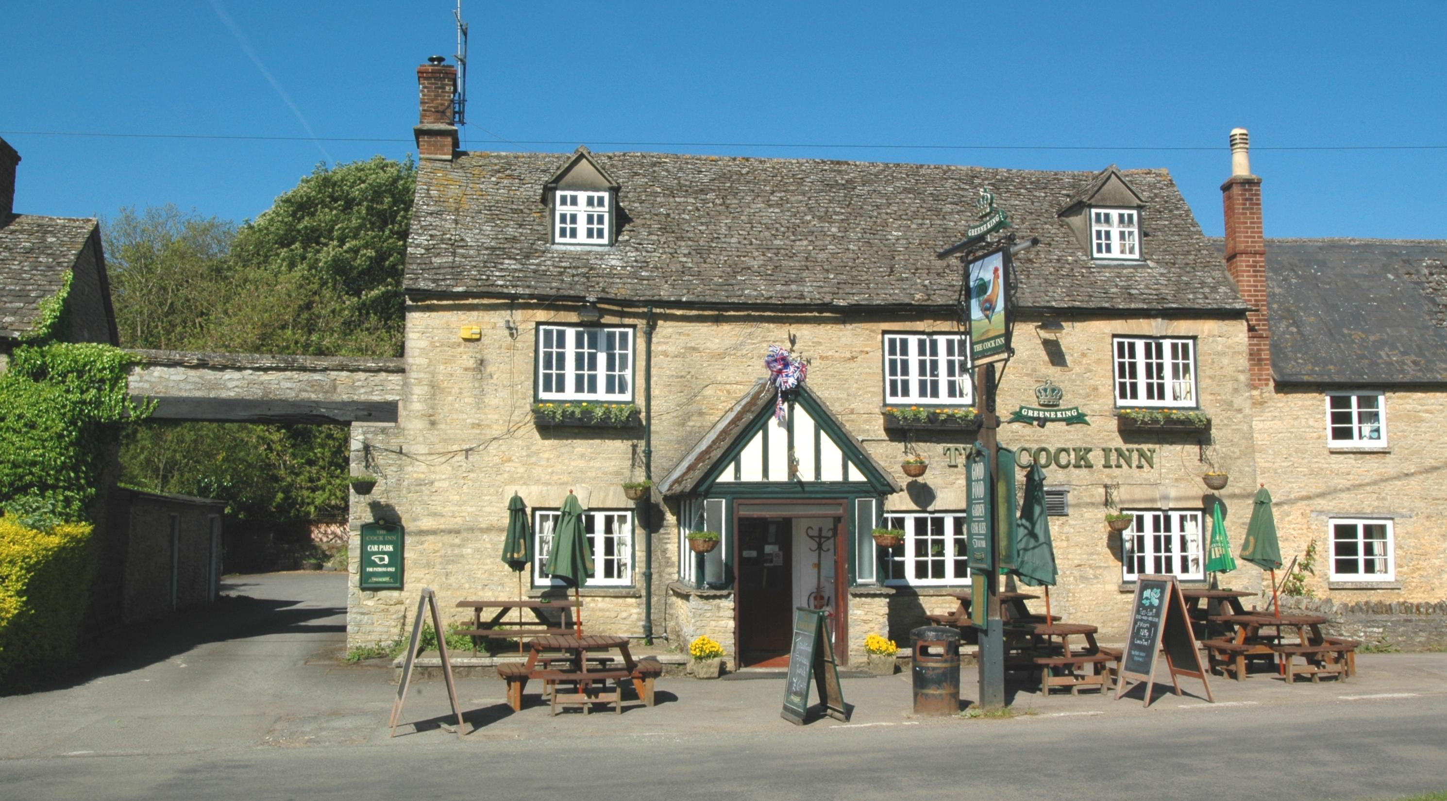 The Cock Inn, The Green, Combe, Oxfordshire